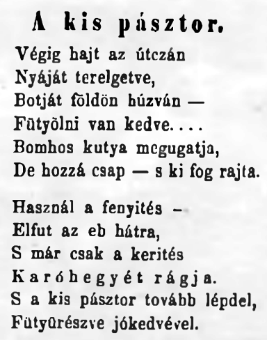 Poem of Nyilas Samu